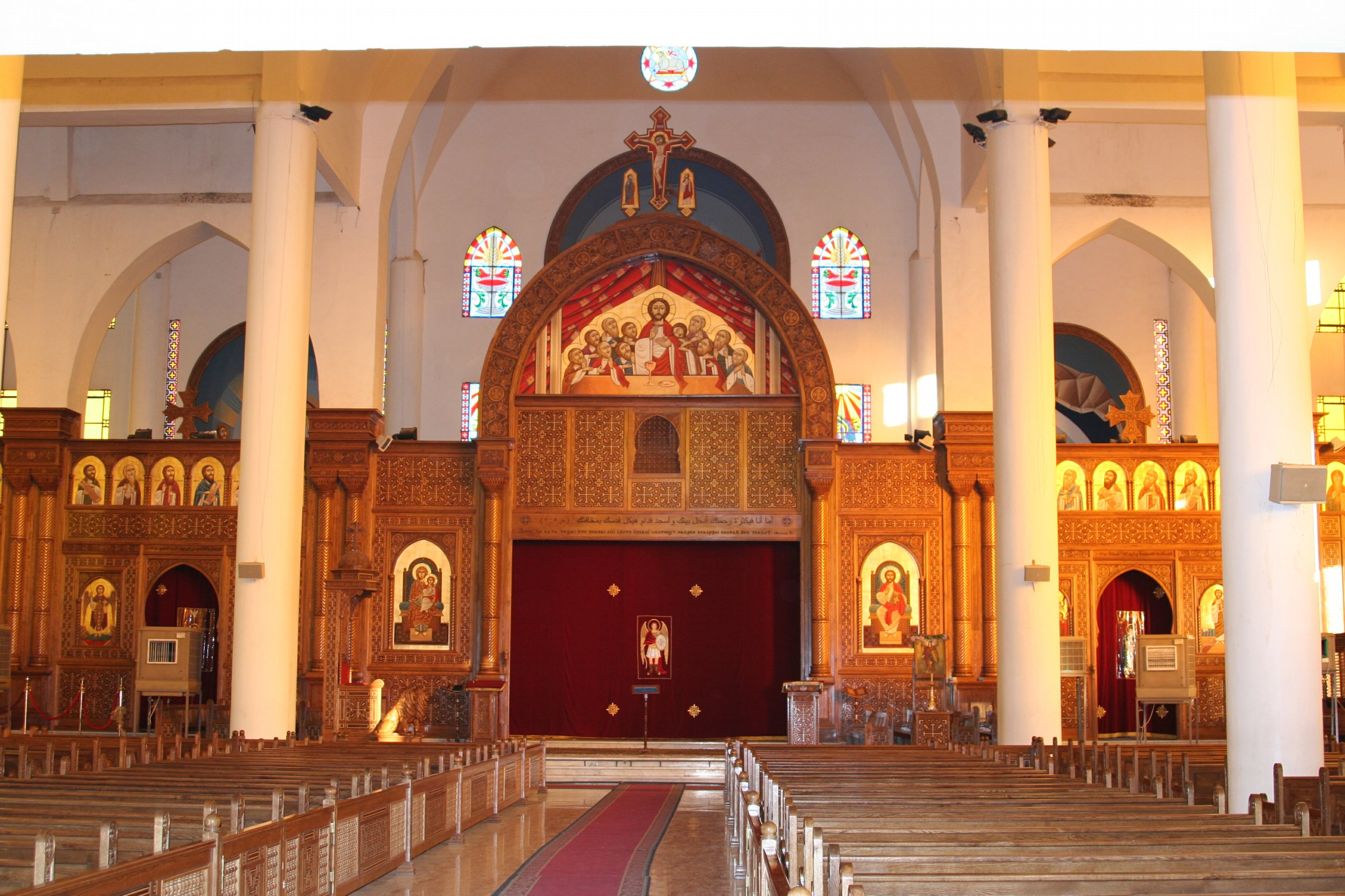 Inside St Michael's Coptic Cathedral - Aswan